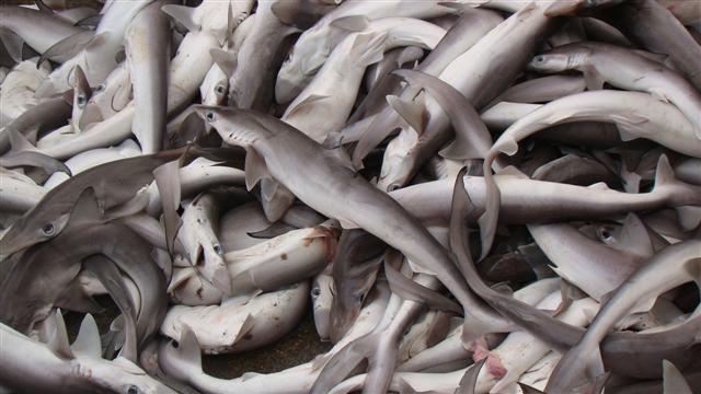 Sliteye sharks (Loxodon macrorhinus). Photo taken in the Ranong Fishing Port (Thailand).